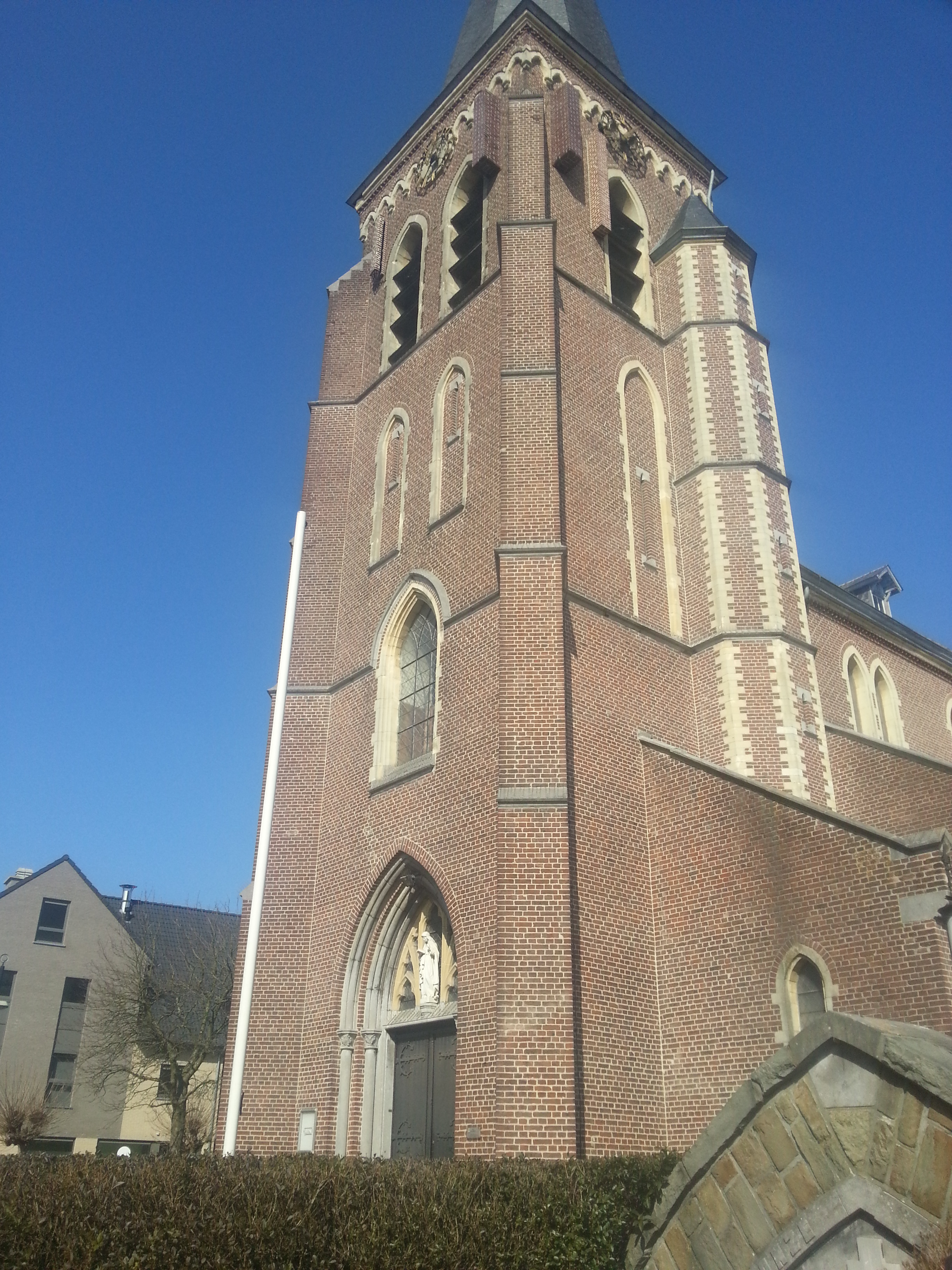 Belltower of the St. Gertrude Church in Beverst